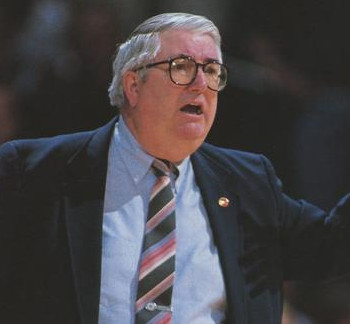 Professional basketball coach Frank Layden